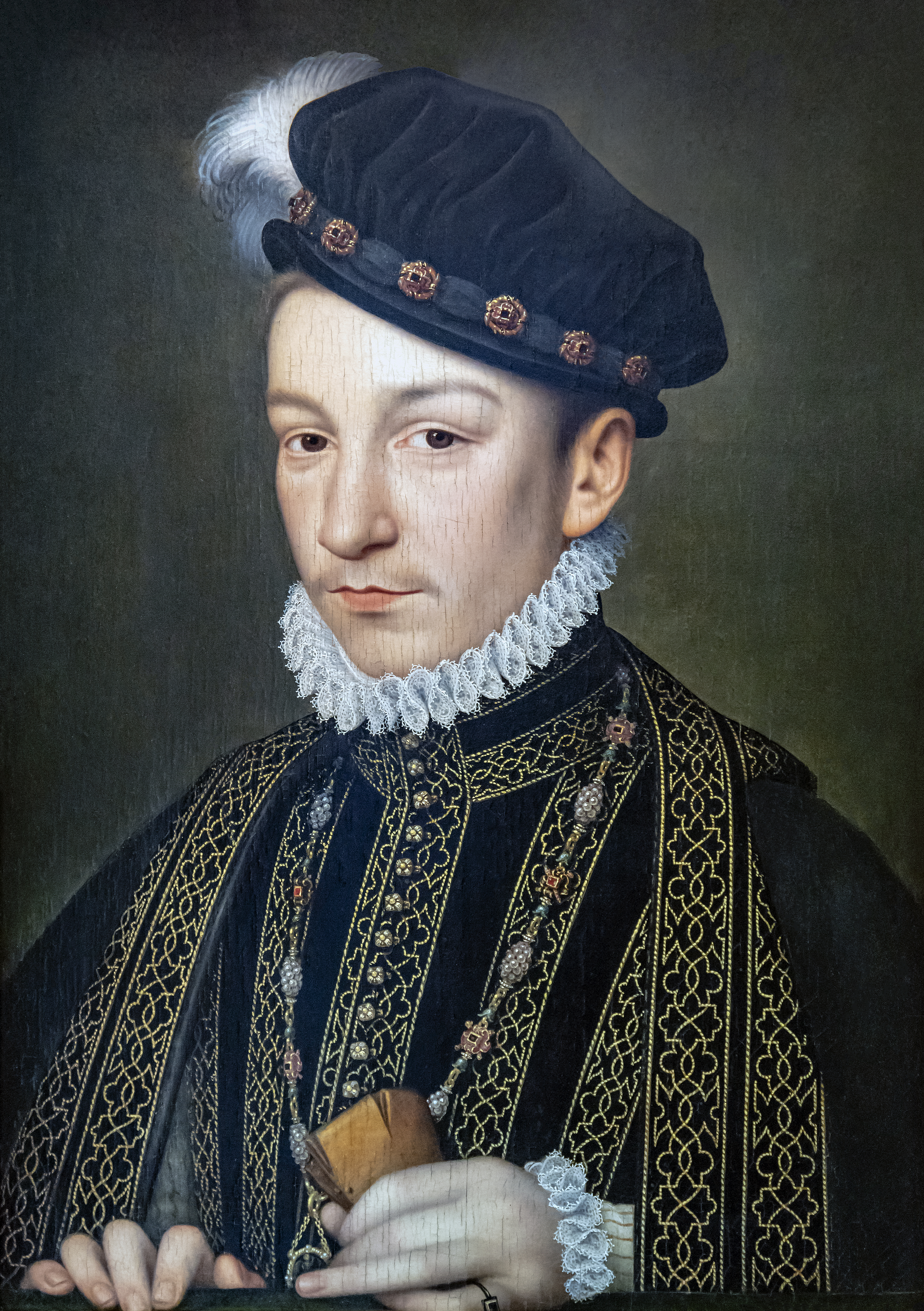 Depicted person: Charles IX of France